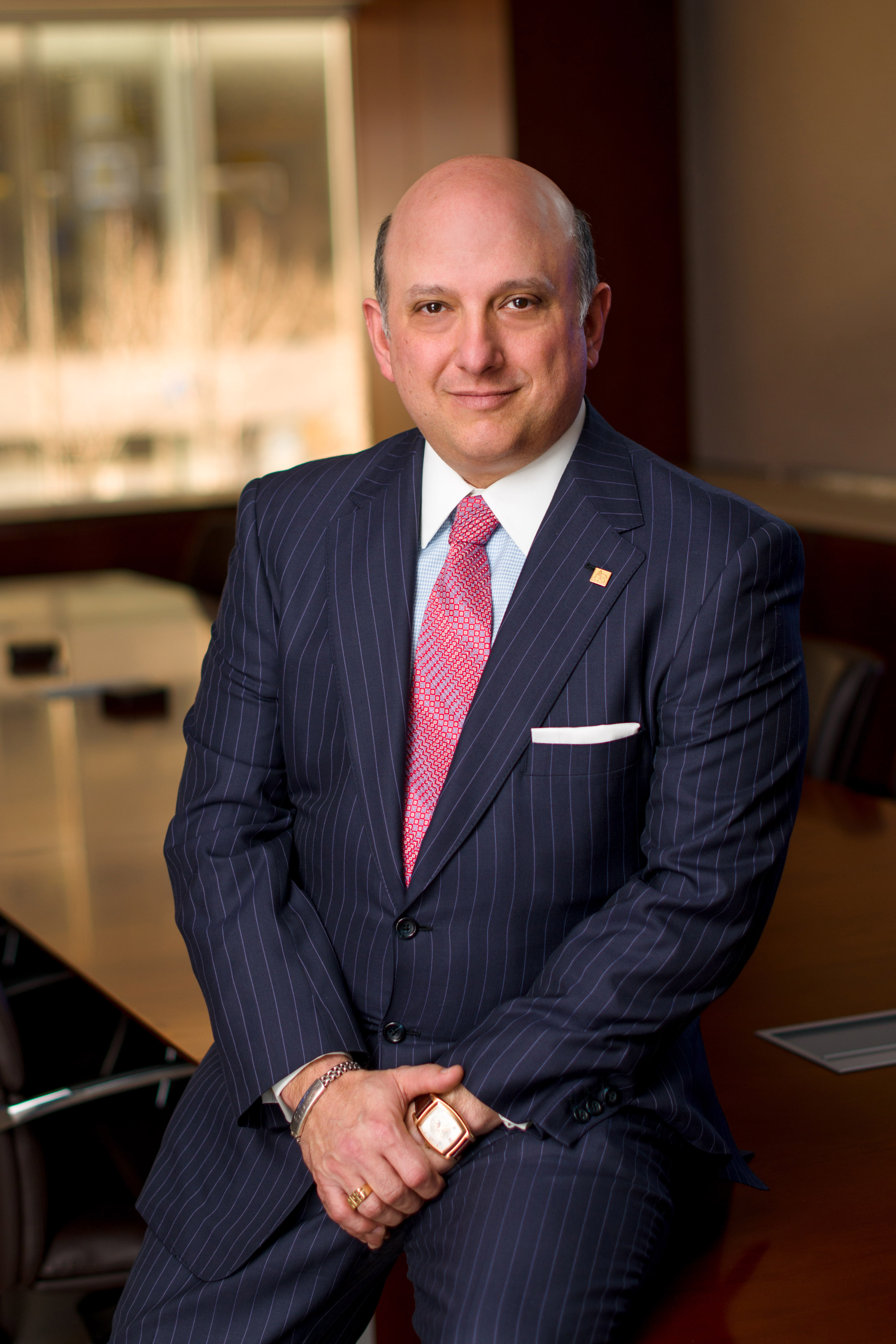 Nicholas S. Schorsch in 2013